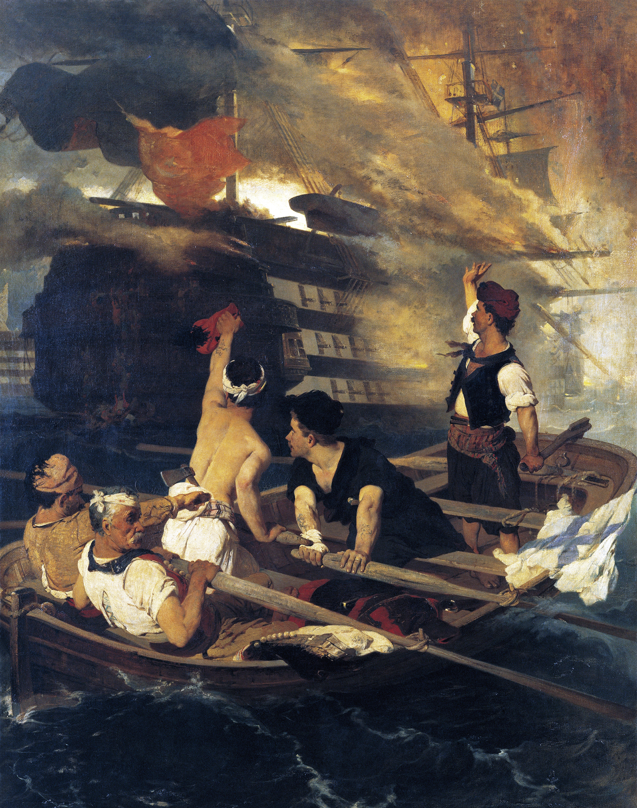 Painting by Nikiforos Lytras (1836-1904) of the attack to the turkish flagship by a fireship commanded by Kanaris at the island of Chios